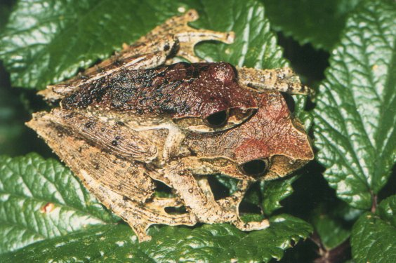 Ranomafana National Park Boophis reticulatus